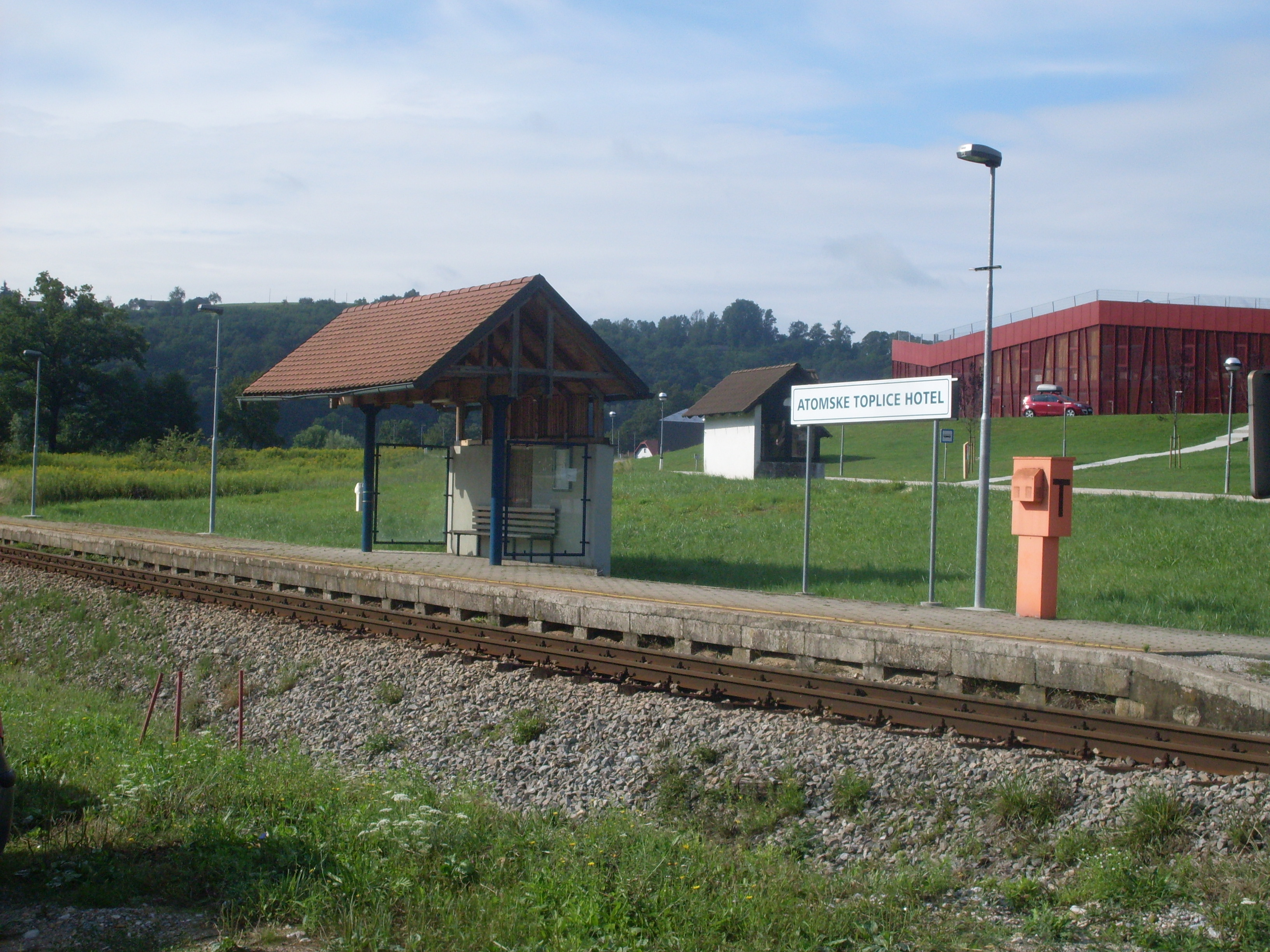 Railway halt Atomske Toplice hotel, serving the Terme Olimia (formerly Atomske toplice)